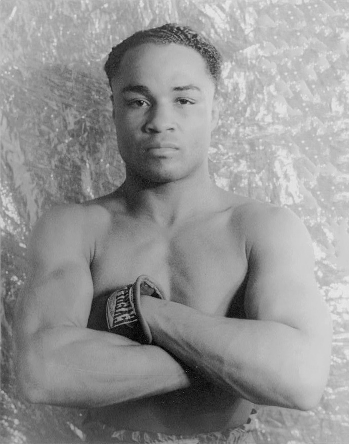 Portrait of Henry Armstrong